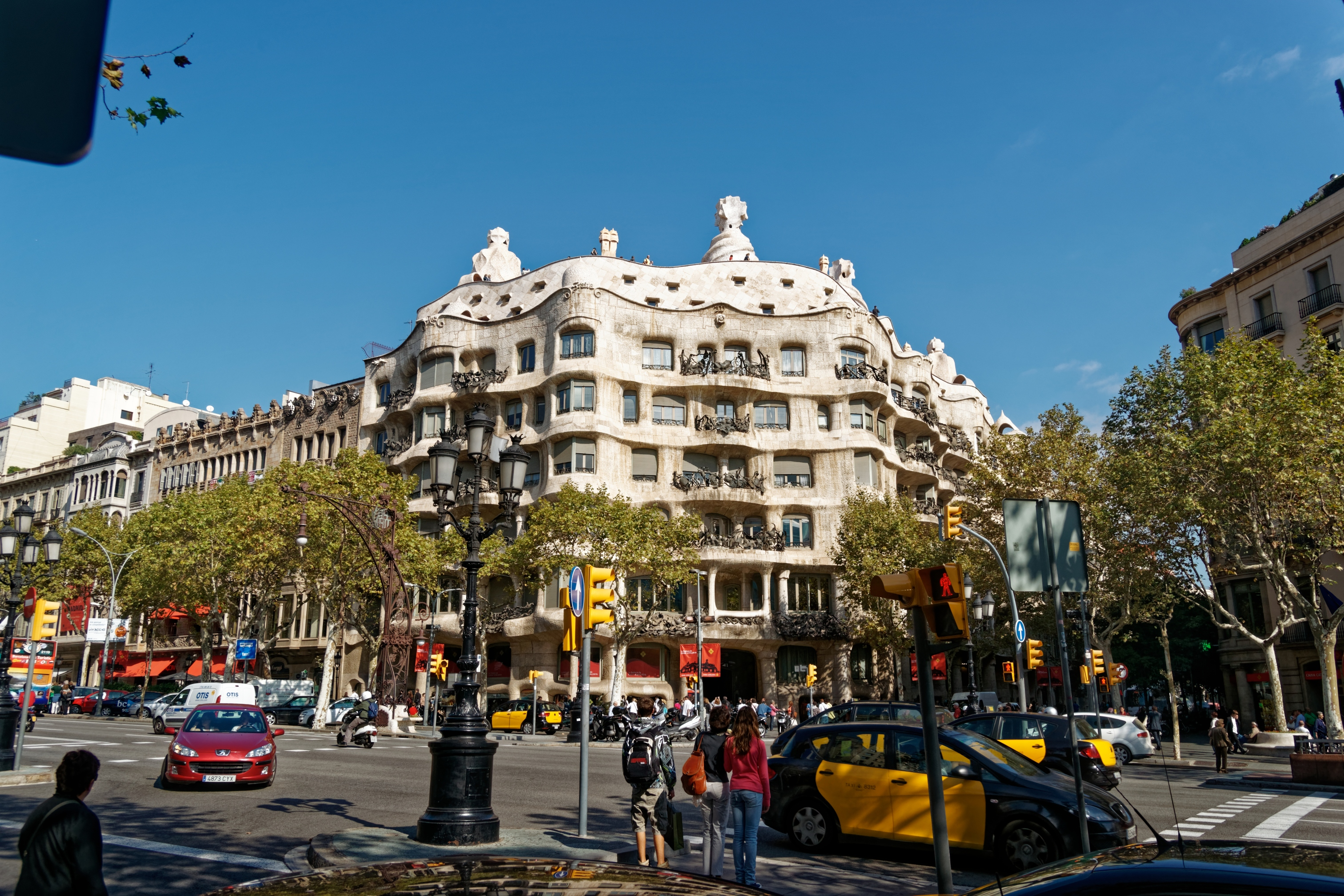 Barcelona - Passeig de Gràcia - View North on Casa Milà